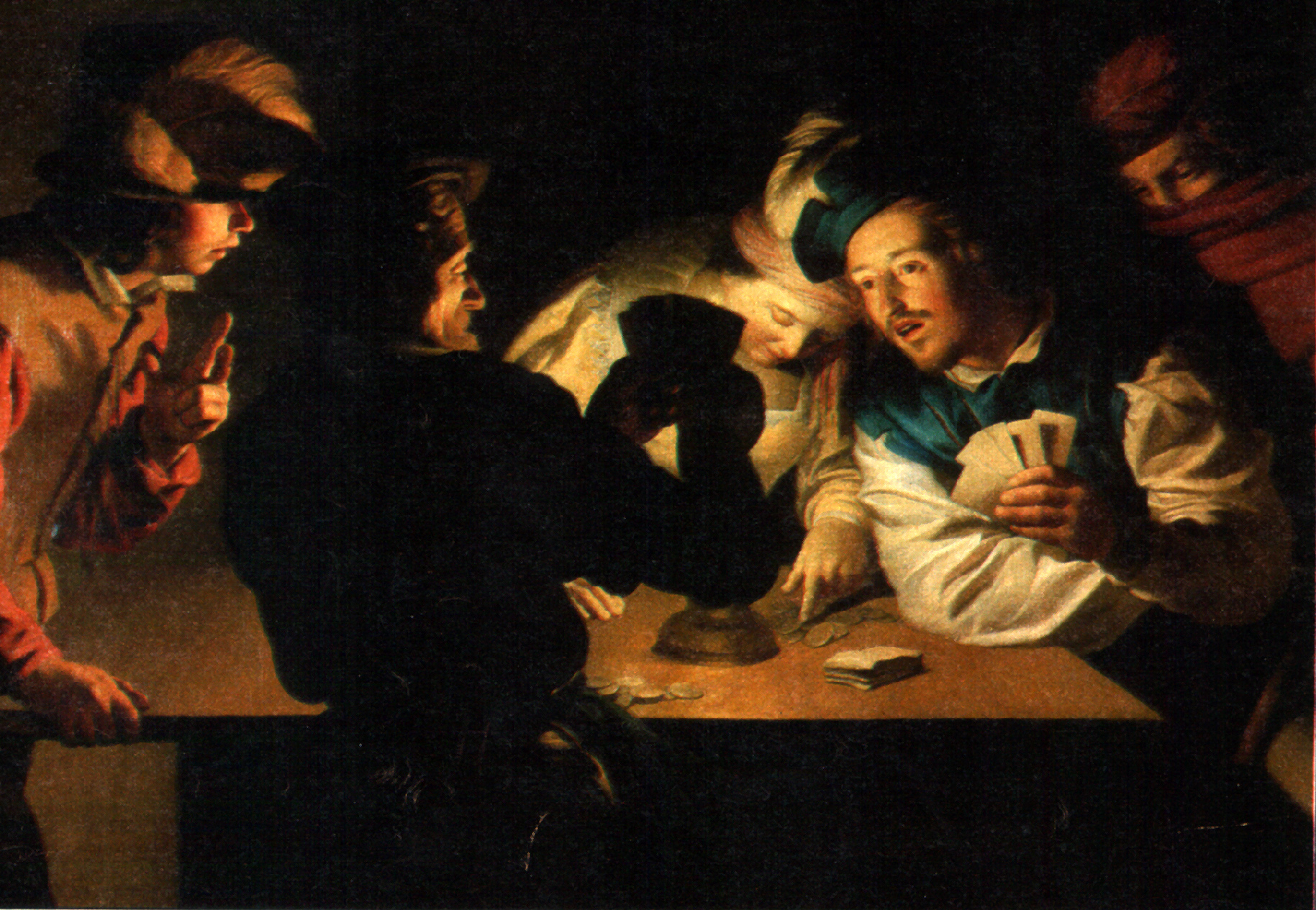 The Cardsharpslabel QS:Lde,"Die Falschspieler"label QS:Len,"The Cardsharps"